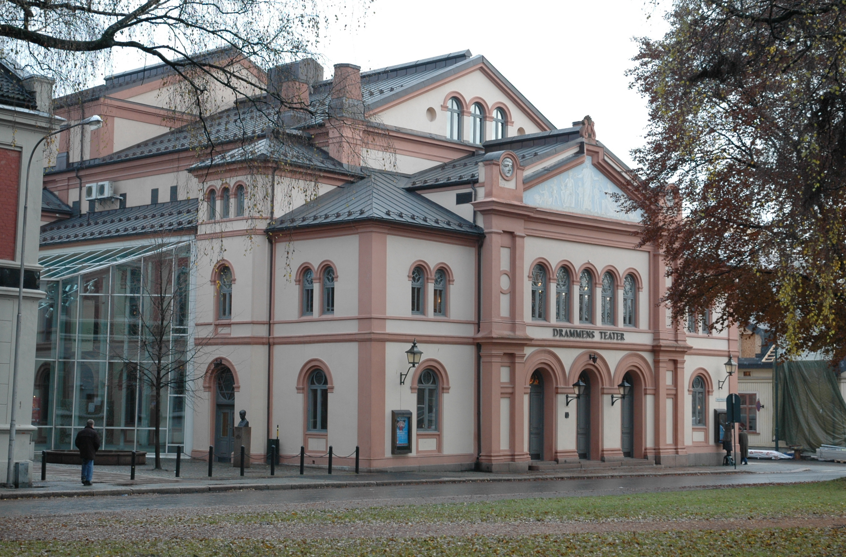 The theatre in Drammen, built 1870. Rebuilt after fire 1997.